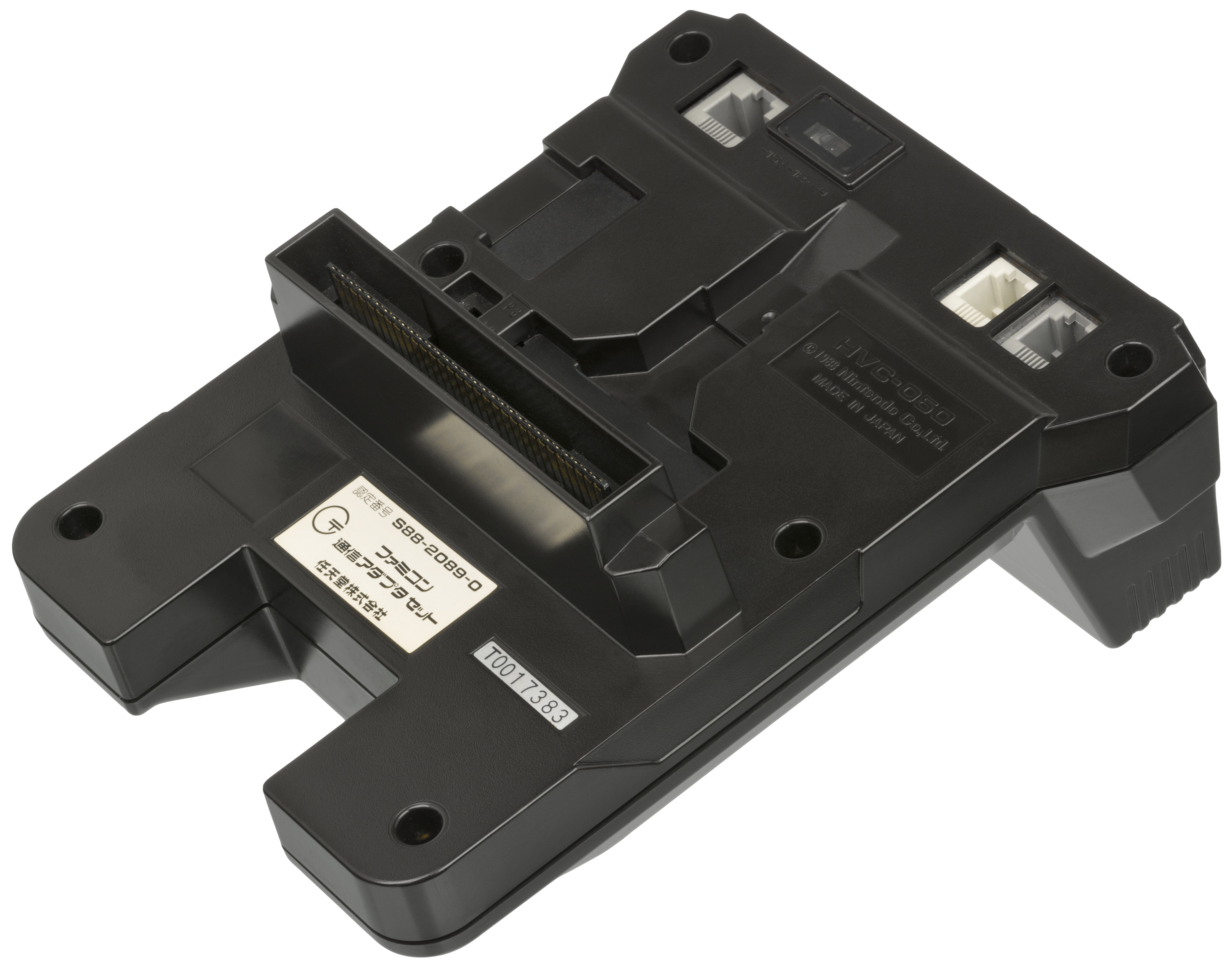 The Nintendo Famicom Network System, a proprietary dial-up modem add-on for the Japanese Nintendo Famicom video game console. This Japanese exclusive accessory was released in 1988 and allowed users limited online abilities like horse-race betting and stock trading.